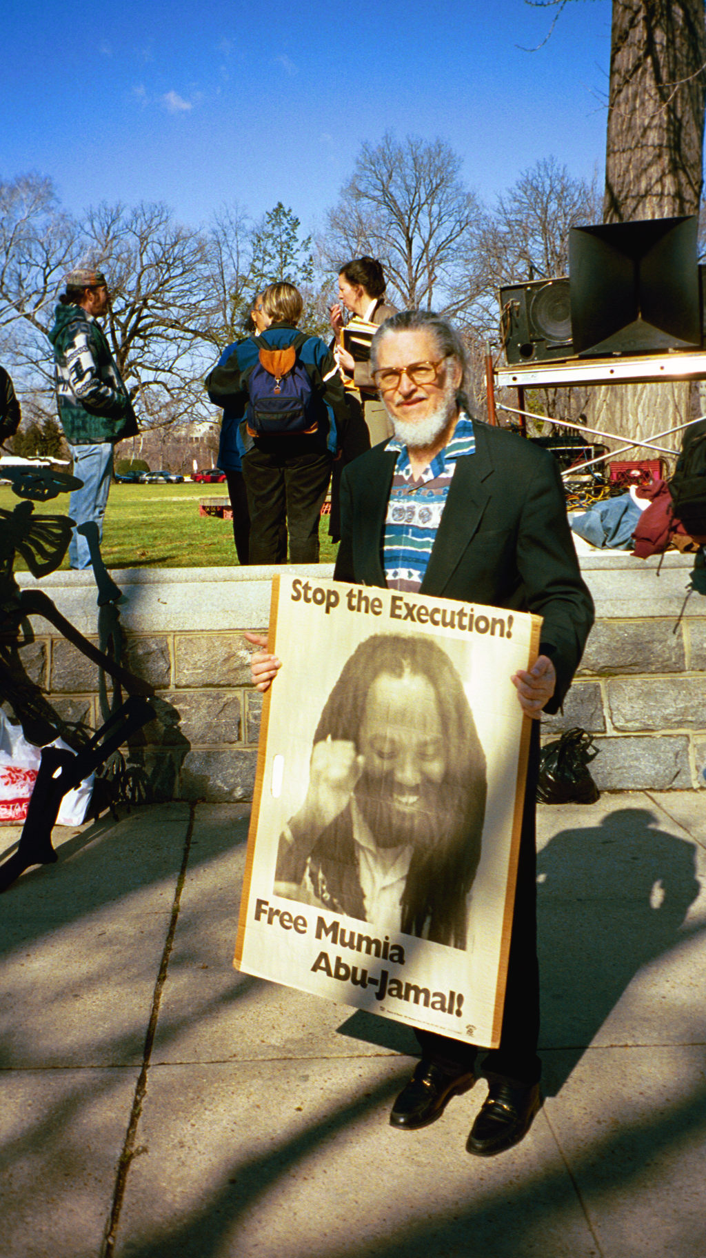 Dennis Brutus at “Free Mumia” (Abu-Jamal) rally. January 29, 2000 in Washington DC at the Supreme Court.